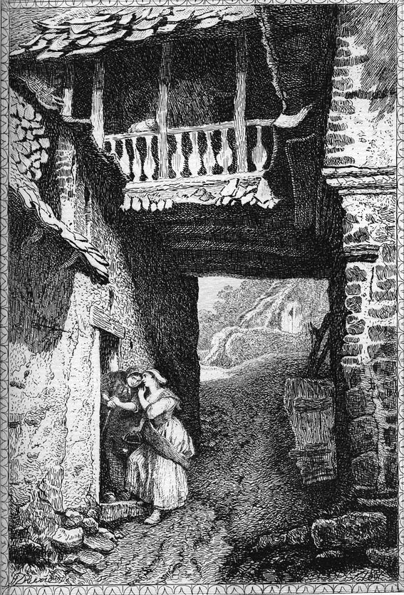 An illustration by Auguste Delierre (1829-91) of La Fontaine's fable "Les femmes et le secret"